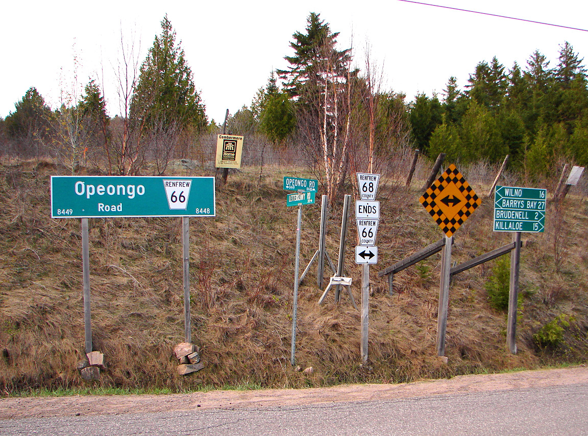 Road signs along the Opeongo Road, Renfrew County, Ontario, Canada